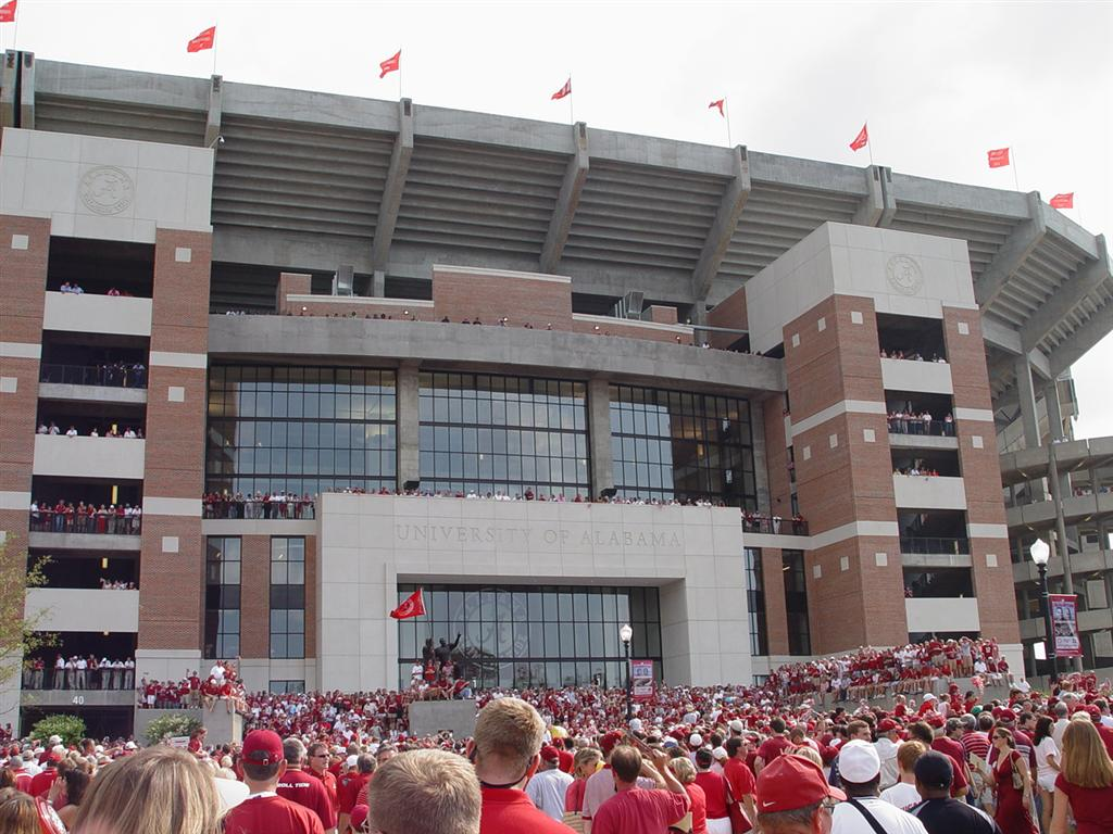 The north endzone of Bryant-Denny Stadium on the opening day of Alabama's 2006-07 season.